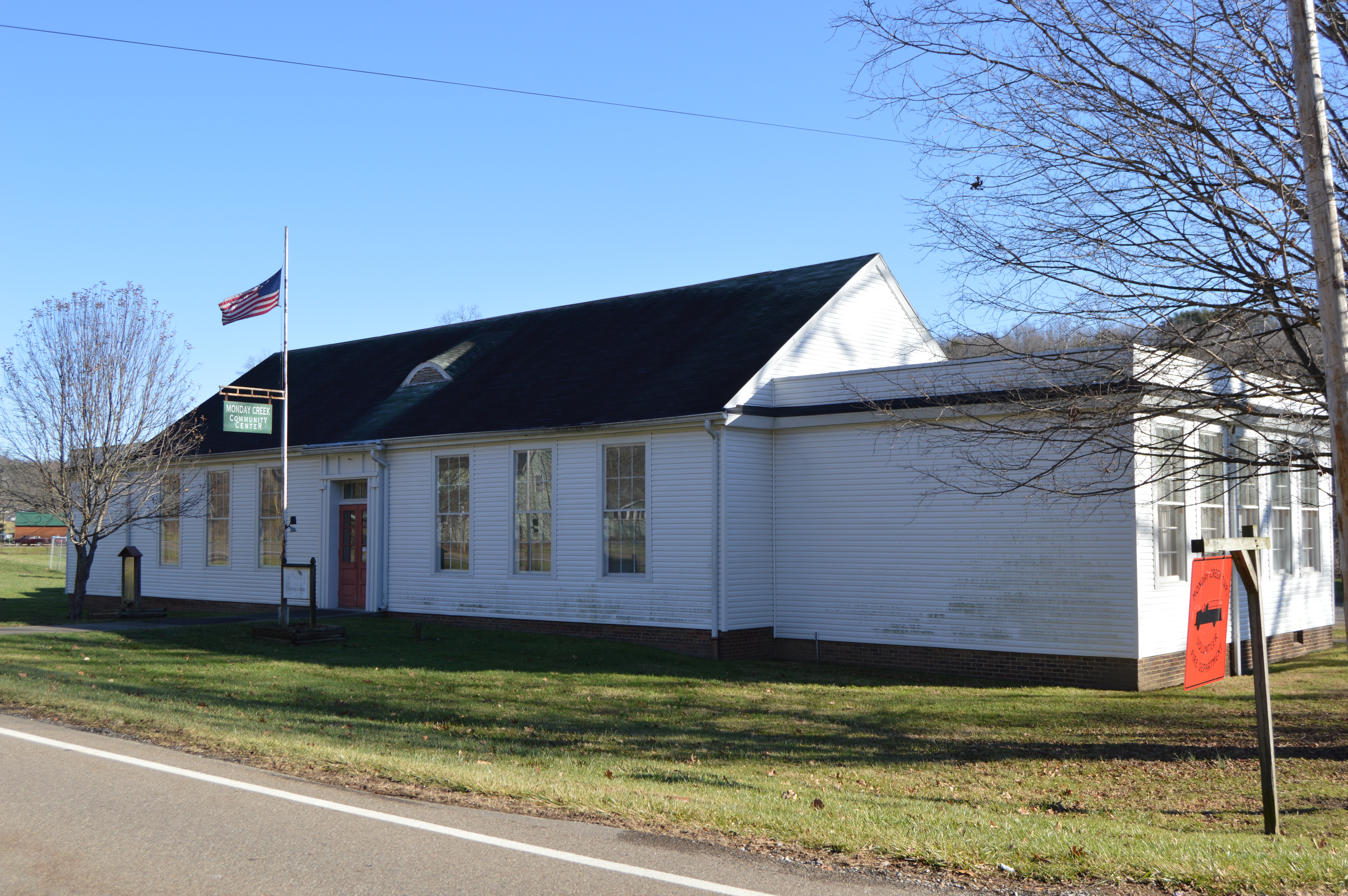 Front of the Monday Creek Community Center, located on State Route 668 at Maxville in Monday Creek Township, Perry County, Ohio, United States.